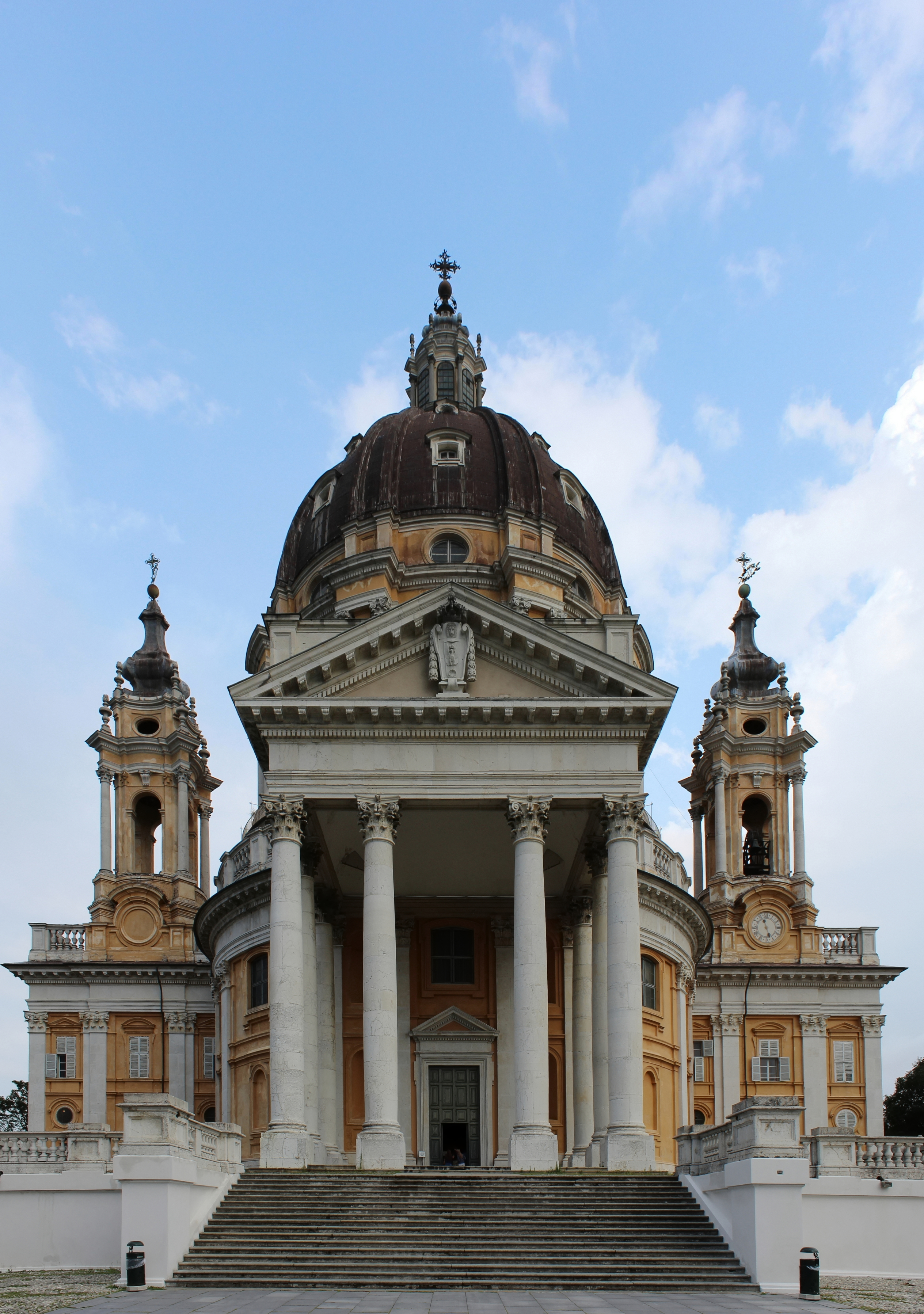 Front view of the Basilica of Superga.